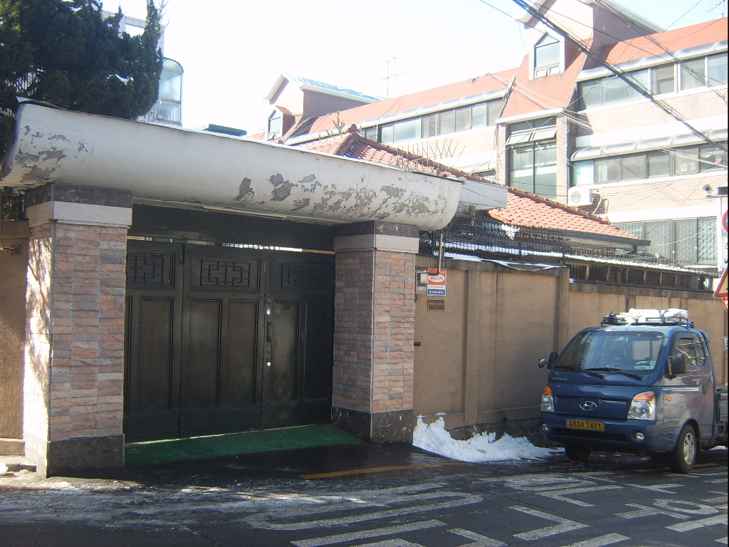 South Korea Former President Park Chung-hee's houses